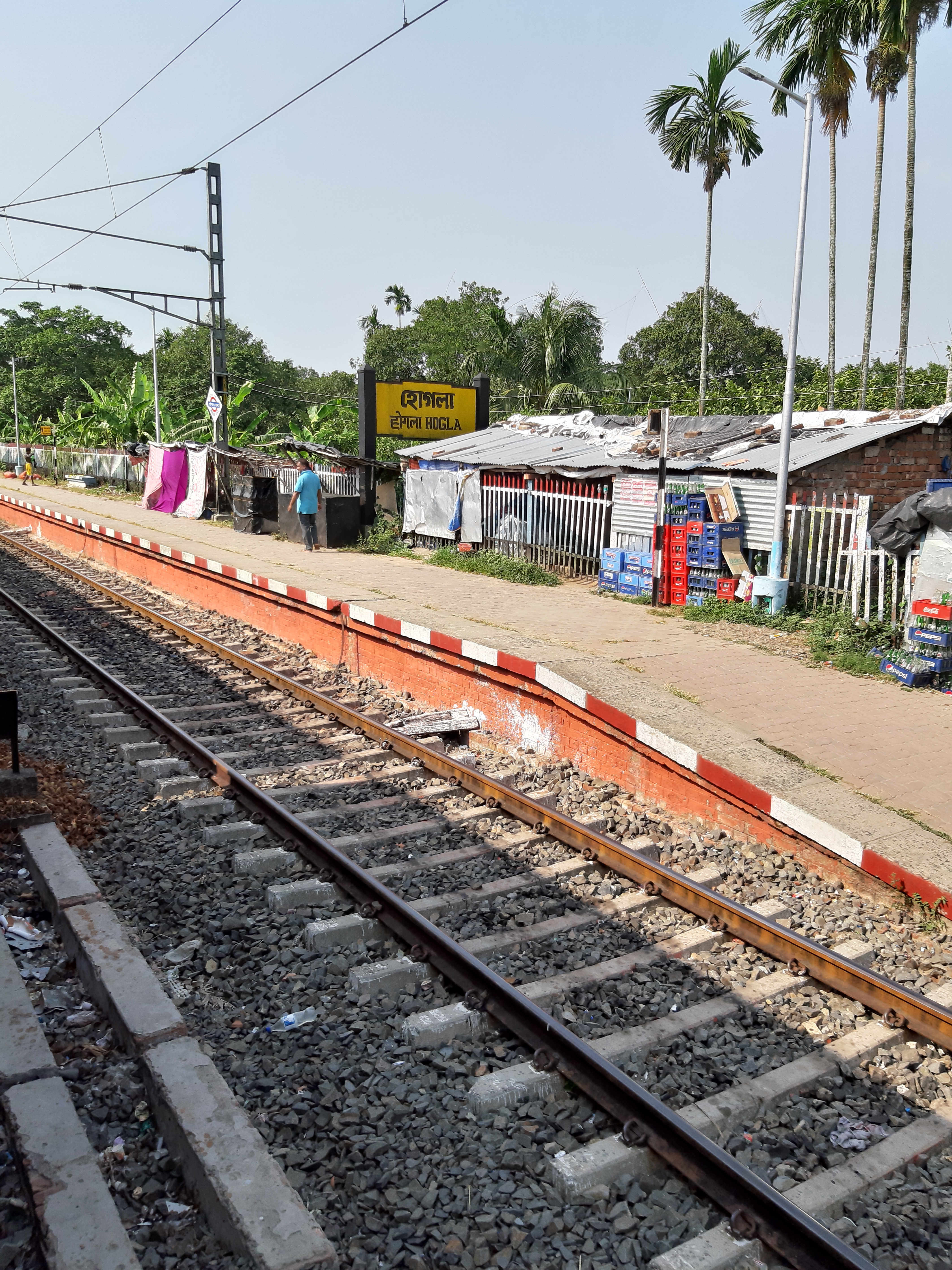 Baruipur to Namkhana Railway Stations, south 24 parganas, West Bengal